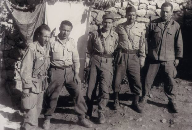 Ouamrane in Soummam conference with other Algerian leaders